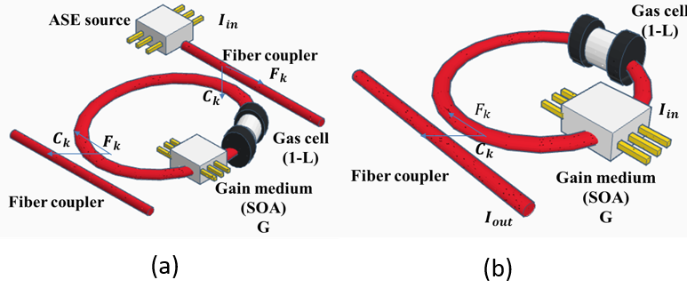 The basic expermental setup for fiber ring IBBCEAS a) dual coupler configuration b) single coupler configuration.